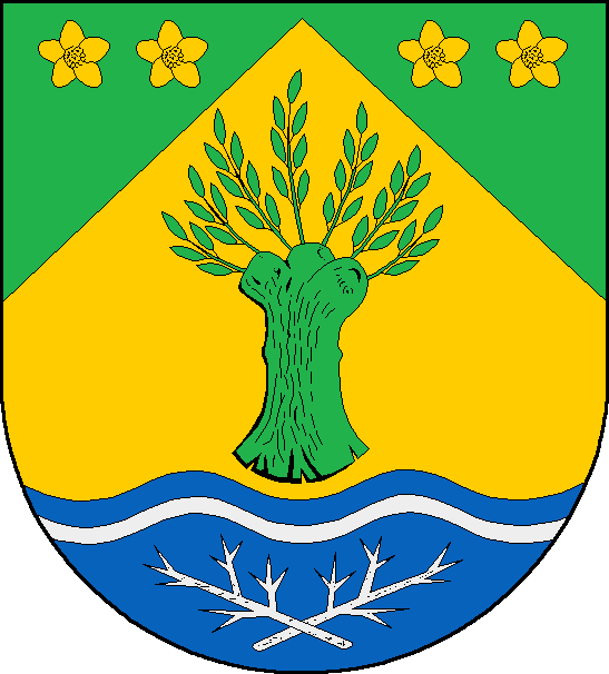 Coat of arms of the municipality Drage in Schleswig-Holstein, Germany.